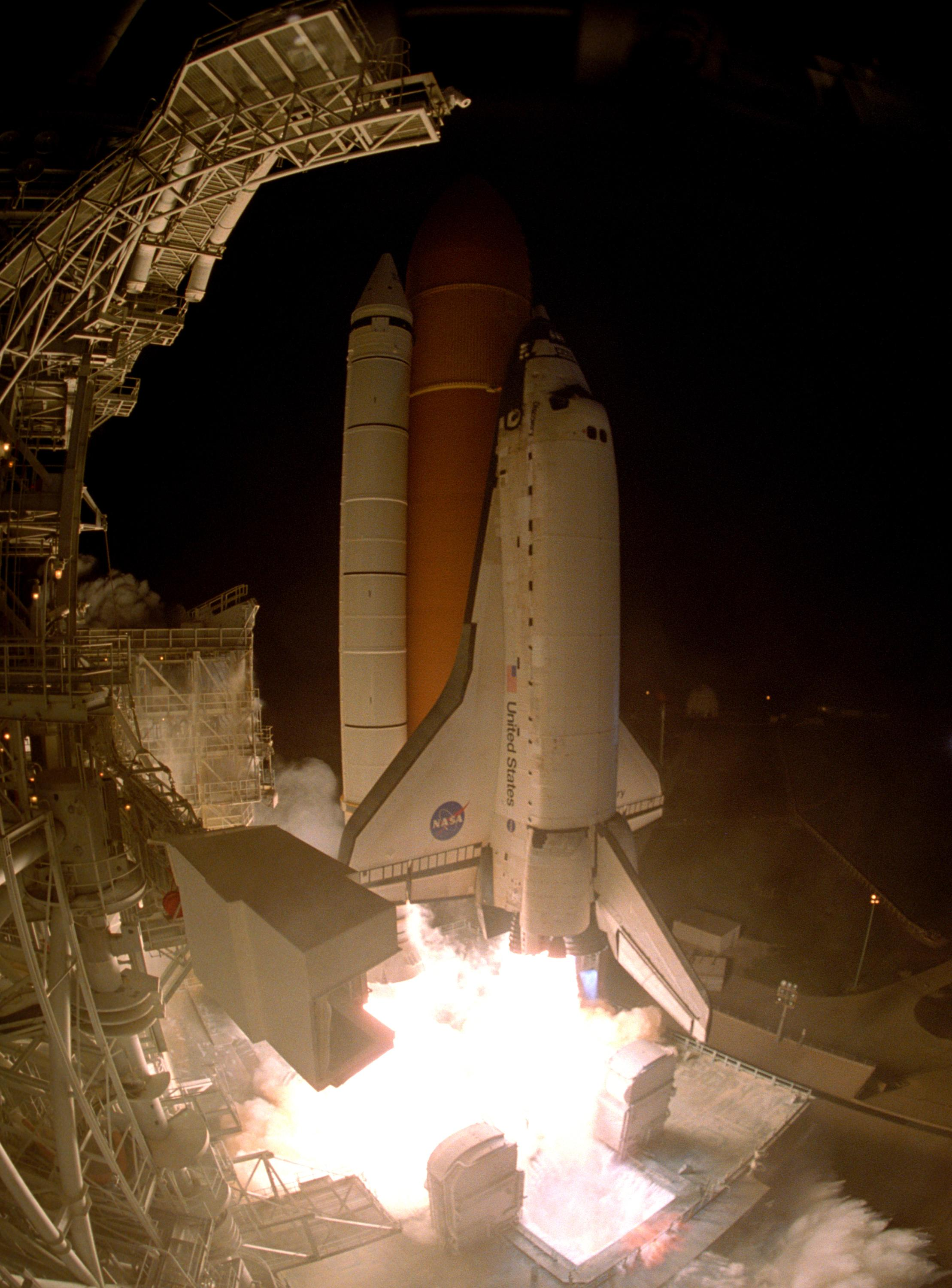 PHOTO NO: KSC-06PP-2768 KENNEDY SPACE CENTER, FLA. -- This fish-eye view shows the water flooding the mobile launcher platform as Space Shuttle Discovery lifts off Launch Pad 39B on mission STS-116. Liftoff occurred on time at 8:47 p.m. EST. This was the second launch attempt for mission STS-116. The first launch attempt on Dec. 7 was postponed due a low cloud ceiling over Kennedy Space Center. This is Discovery's 33rd mission and the first night launch since 2002. The 20th shuttle mission to the International Space Station, STS-116 carries another truss segment, P5. It will serve as a spacer, mated to the P4 truss that was attached in September. After installing the P5, the crew will reconfigure and redistribute the power generated by two pairs of U.S. solar arrays. Landing is expected Dec. 21 at KSC. Photo credit: NASA/Tony Gray & Don Kight